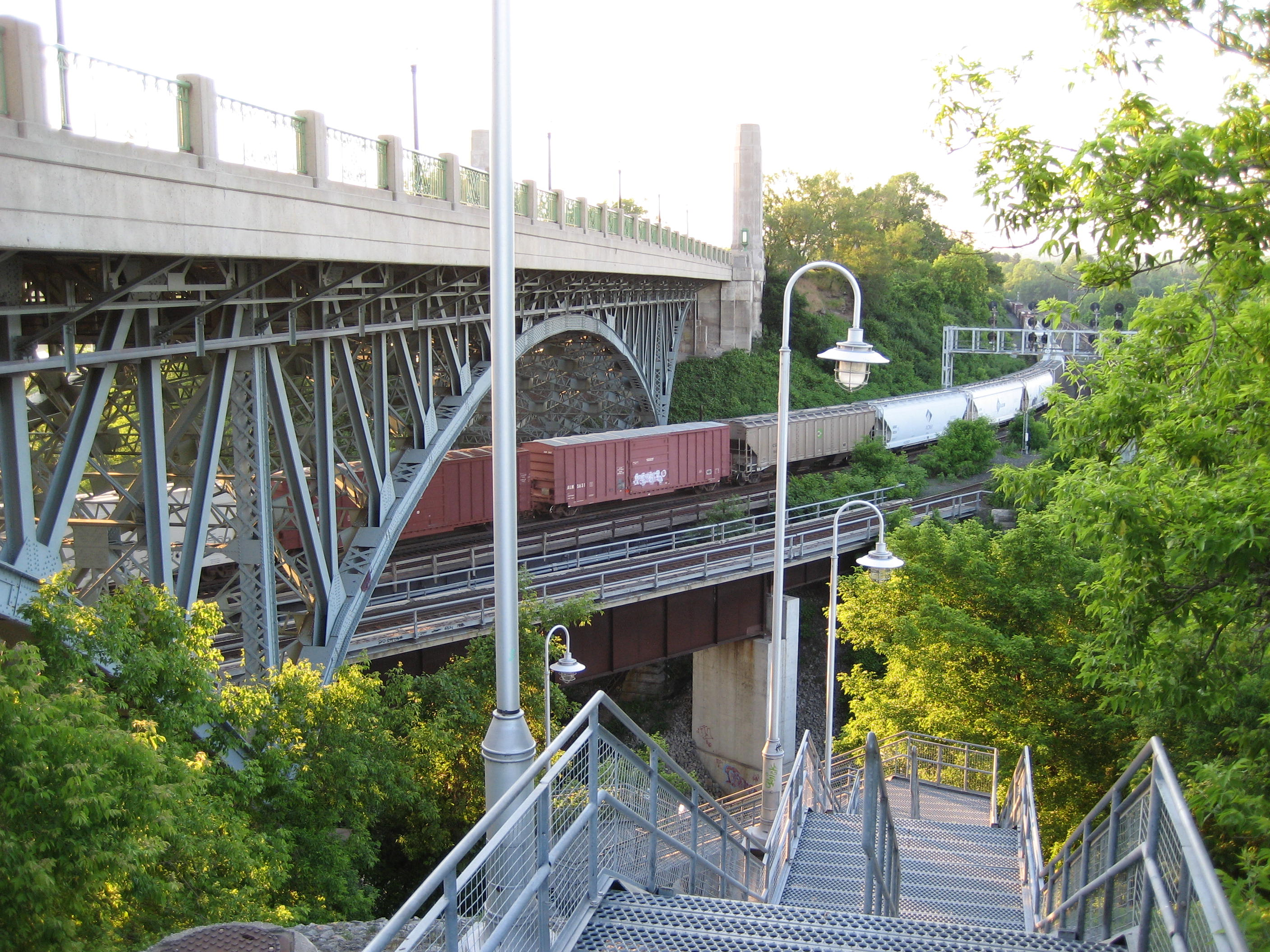 York Boulevard high level bridge stairway, Hamilton, Ontario. Stairs lead down to the Desjardins Canal, Cootes Paradise + Waterfront Trail. Canadian National Railway lines crosses underneath the high level bridge.